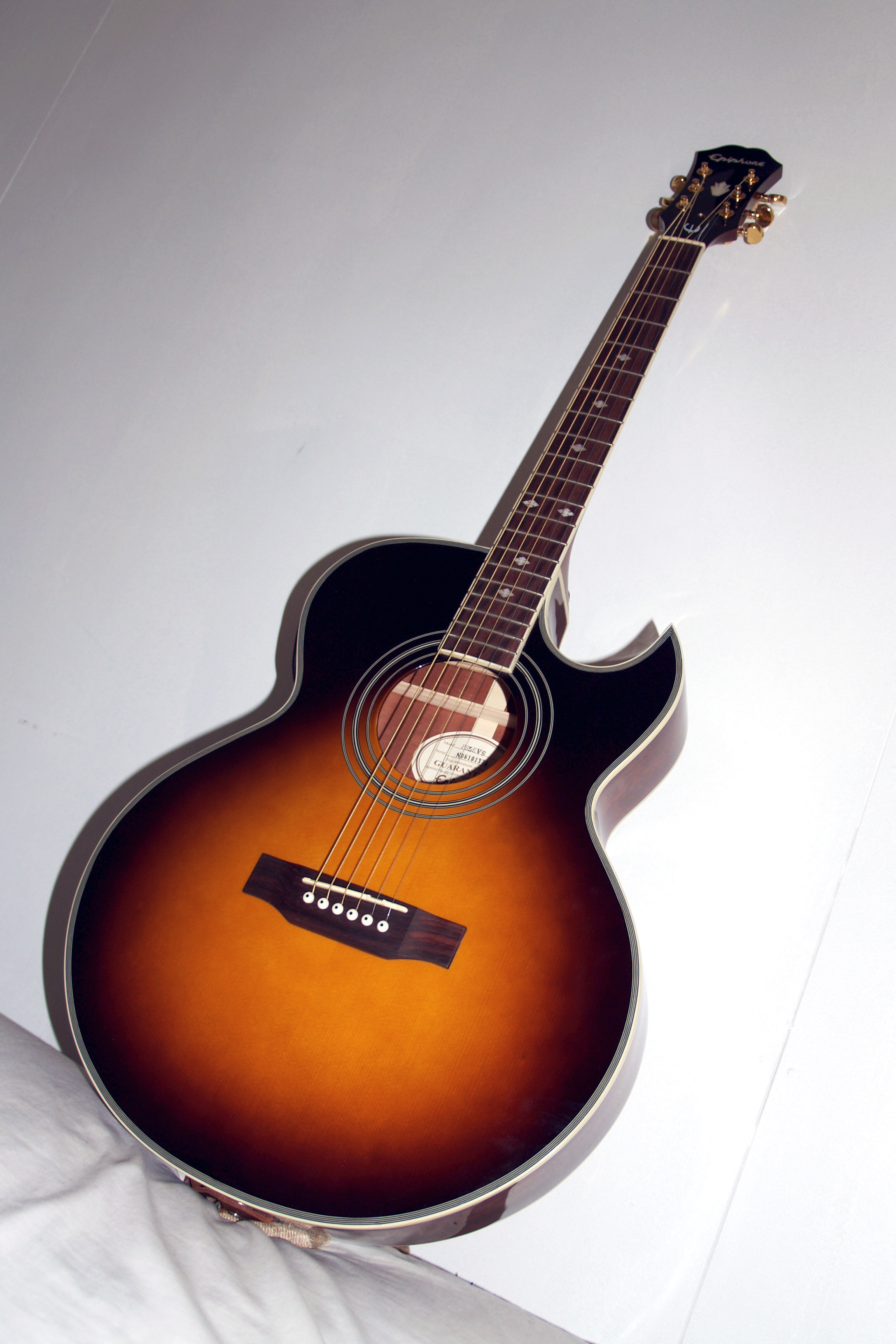 Epiphone PR-5E VS Cutaway Acoustic Electric Guitar (Vintage Sunburst) New acoustic purchased on Wednesday from my friend Ed the sound guy at Musicians Pro Shop in the Valley. It was a toss up between this one and another Epiphone that Ed recommended. After a few hours sound-testing, I finally went with this one. Ed gave me a good deal too.